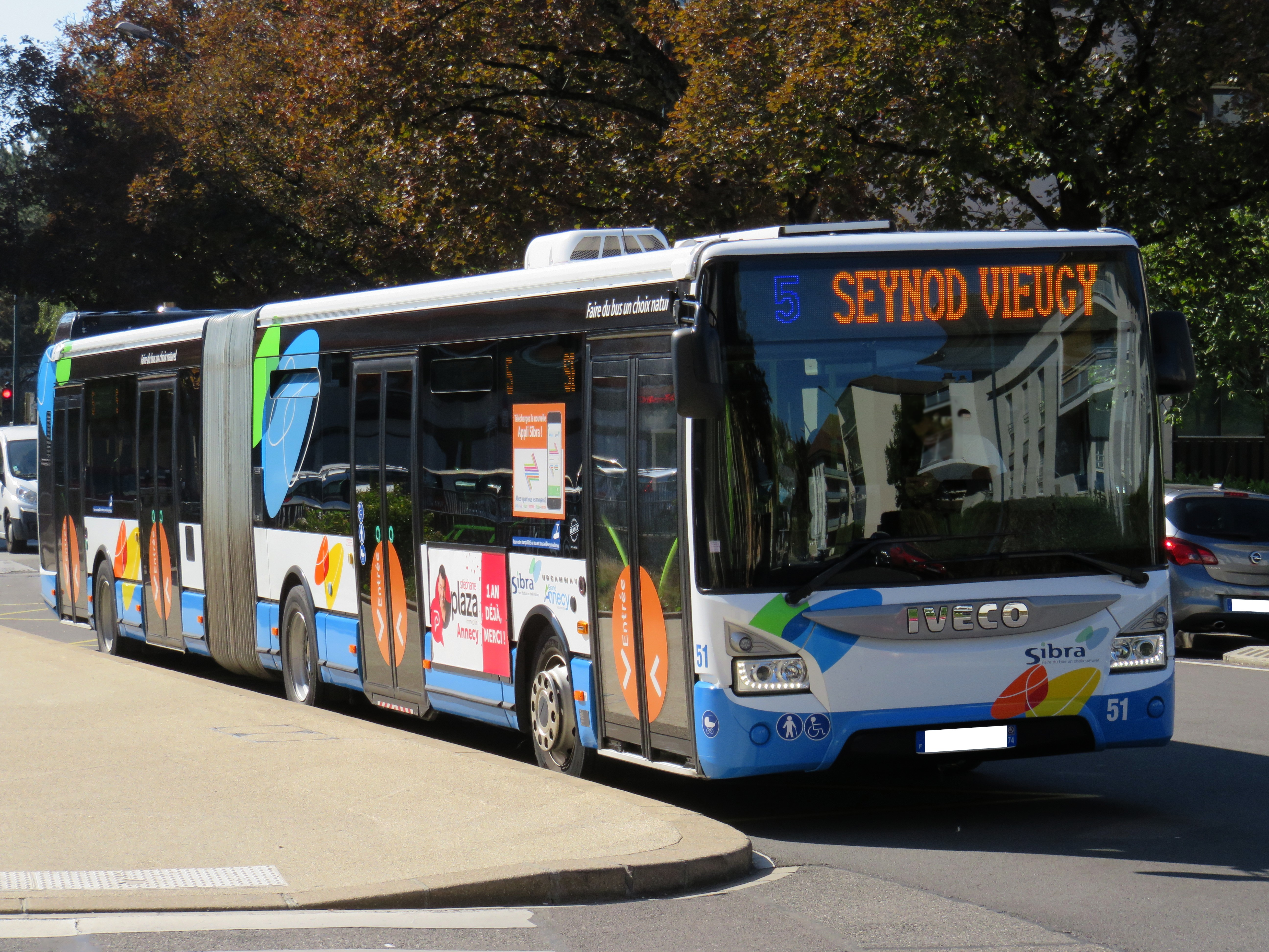 An Iveco Urbanway 18 (n°51 of the SIBRA), carrying out the line 5 of the bus network Sibra — Novel, Annecy↔Seynod Vieugy, Seynod — and parked at the call Novel (Annecy, France) on October 4, 2018.